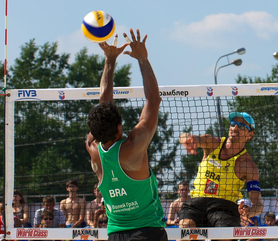 Grand Slam Moscow 2011